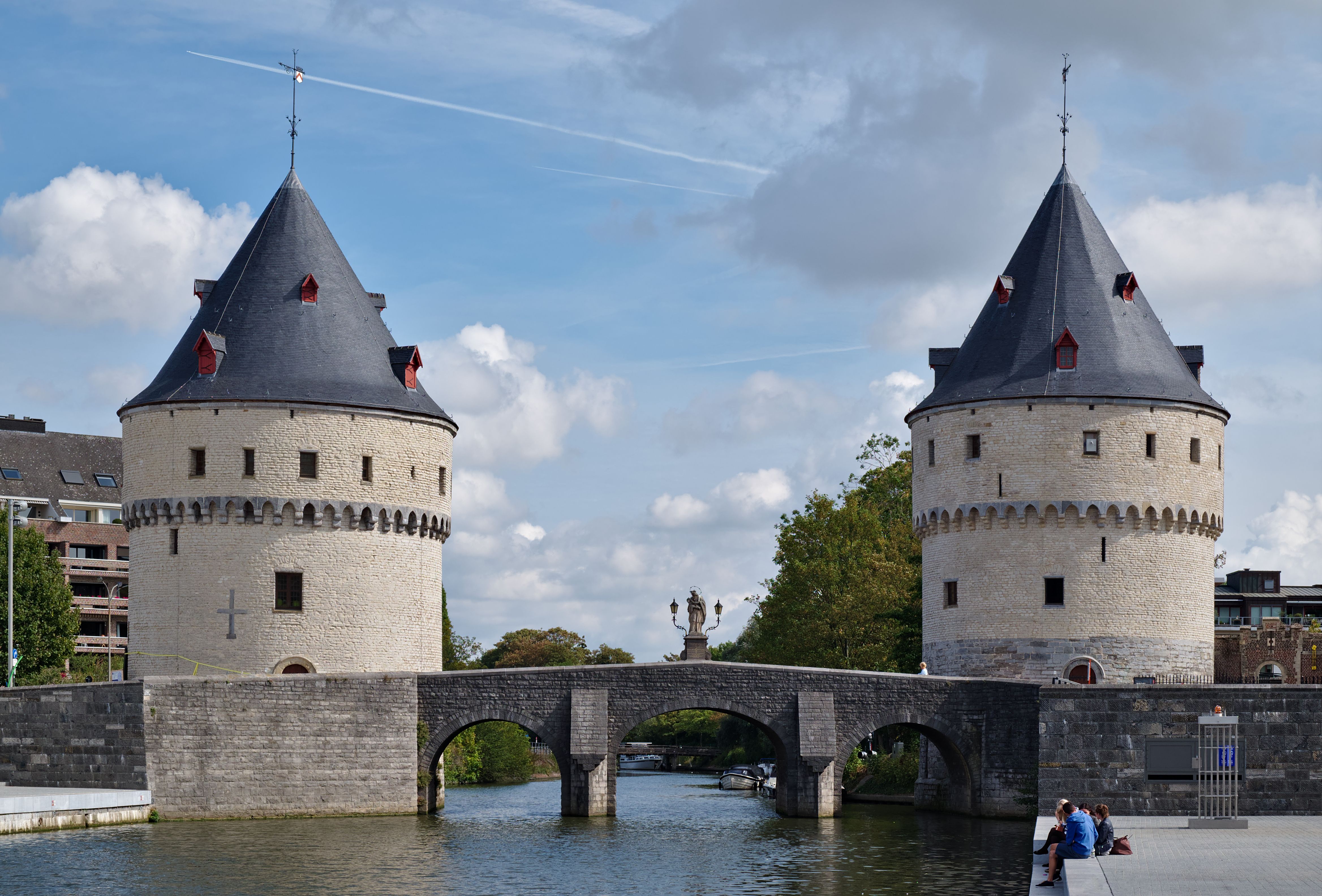 The Broel Towers in Kortrijk, Belgium This photo of immovable heritage has been taken in the Flemish Region